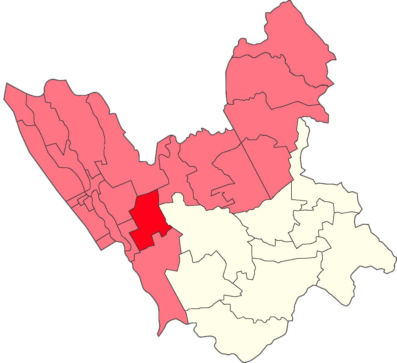 Based on Ph fil congress valenzuela 1d.png